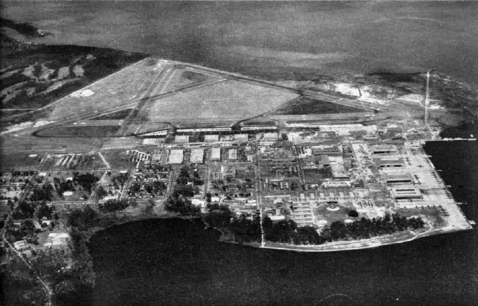 The Naval Air Station Jacksonville, Florida, USA, about 1946/47.